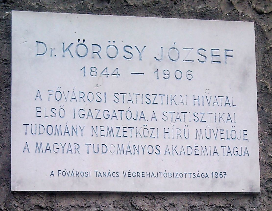 József Kőrösy commemorative plaque in Budapest District XI, Kőrösy József Street No 13